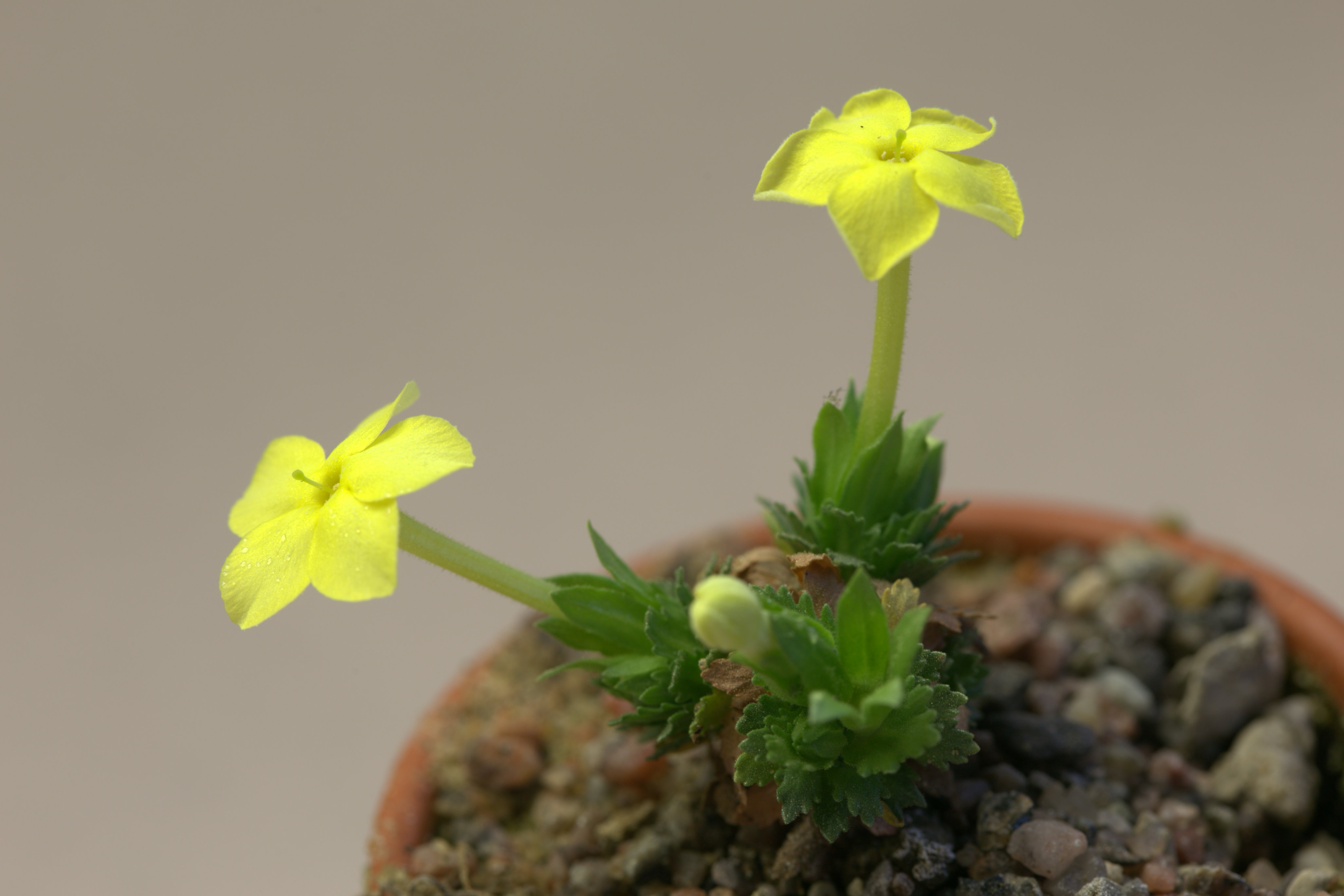 Dionysia caespitosa in Gotheburg Botanical Garden. Plant id: 2014 T4Z 155-1 UZ Christ